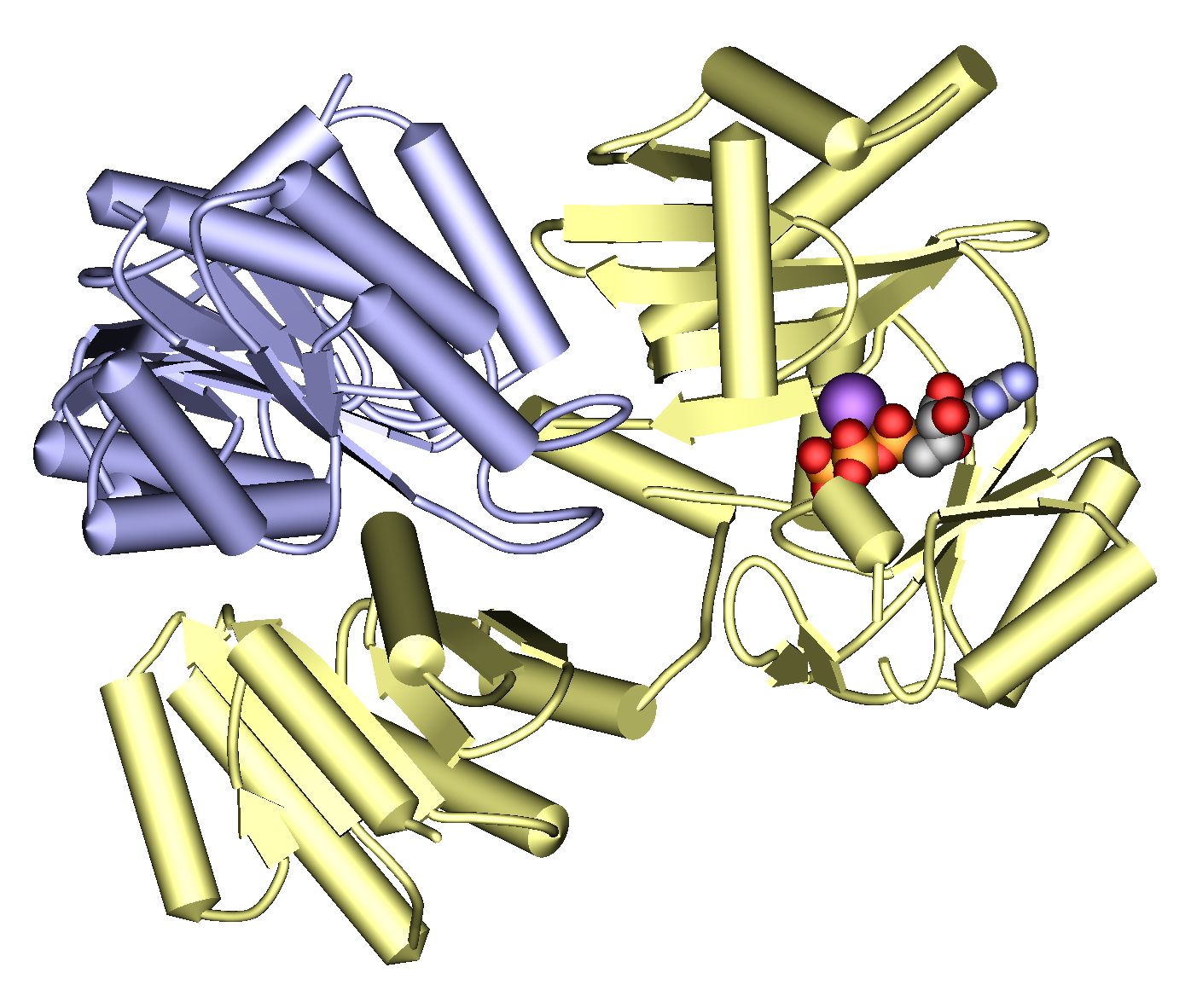 3d tube model of succinyl-CoA synthetase dimer from pig (Sus scrofa), with the α subunit blue and the β subunit yellow, and GTP+potassium spacefilling, after PDB 2FP4. Ref.: Fraser ME, Hayakawa K, Hume MS, Ryan DG, Brownie ER (April 2006). "Interactions of GTP with the ATP-grasp domain of GTP-specific succinyl-CoA synthetase". J. Biol. Chem. 281 (16): 11058–65. PMID 16481318.